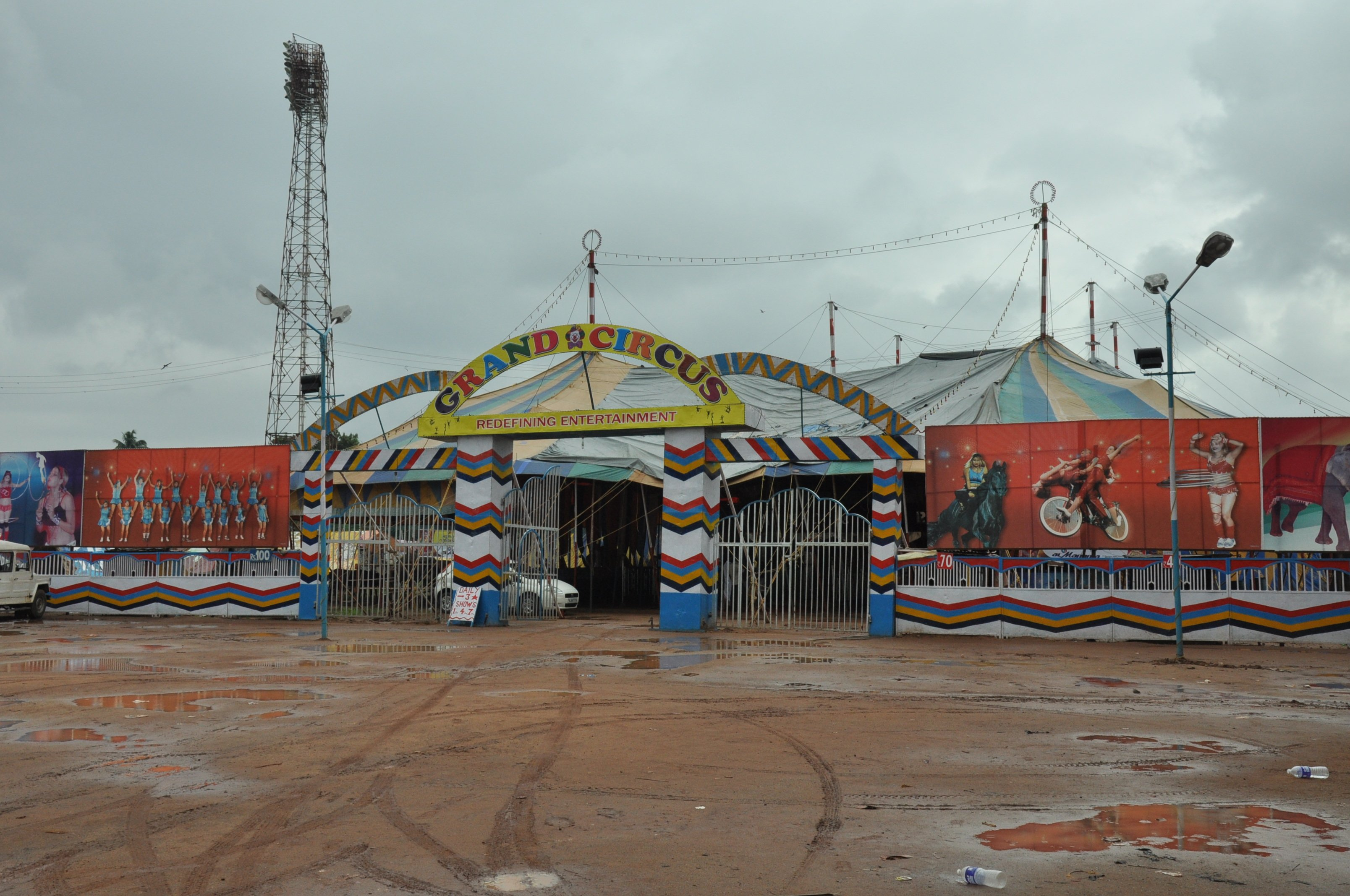 Circus tent